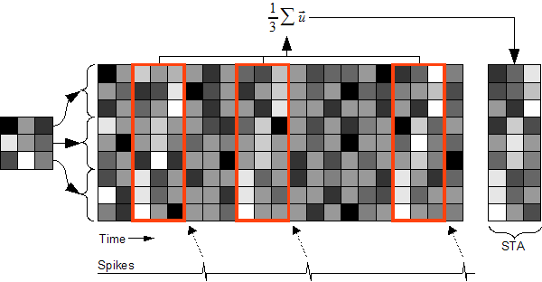 A diagram that shows how STA or the spike-triggered average of a neuron is calculated.